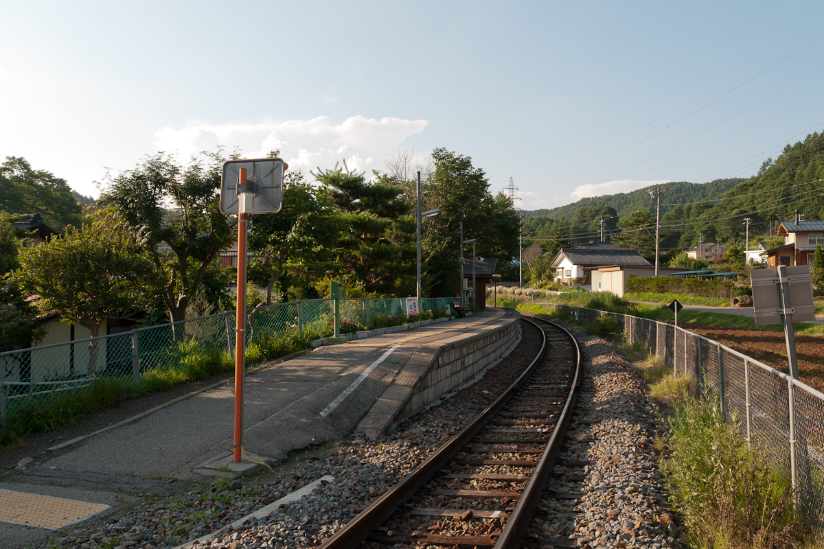 JR East Koumi Line Umijiri Station